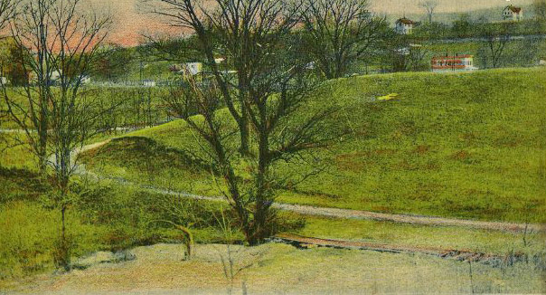 Excerpt from late 19th-early 20th century postcard depicting structure known as "Yankee Dam" near Hawthorne, NY, USA. Created by damming a tributary of the Saw Mill River to prevent British troops from easily using the river valley for military incursions toward Patriot-held terrain to the north. Remained until leveled for construction of Hawthorne circle in mid-1920s.